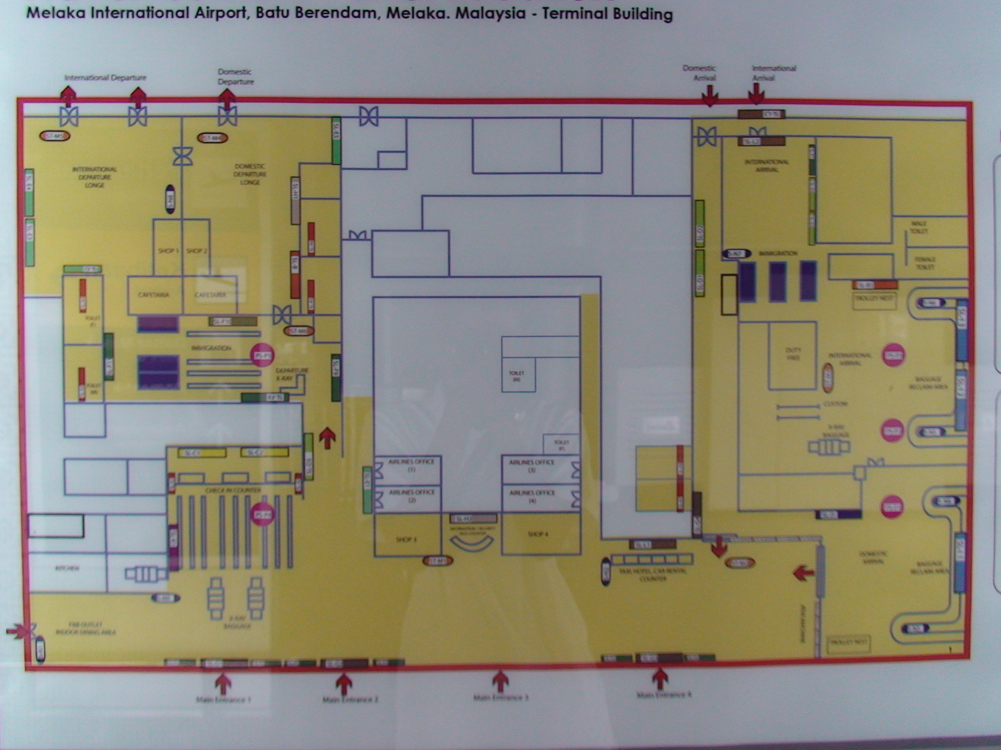 Layout of the new terminal